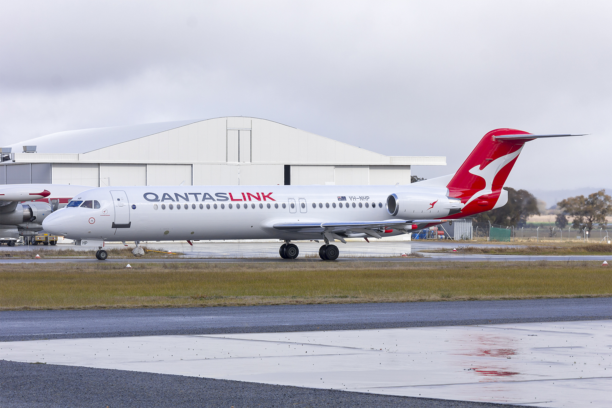 Network Aviation (VH-NHP) Fokker 100 in new QantasLink "new roo" livery, taxiing at Wagga Wagga Airport.